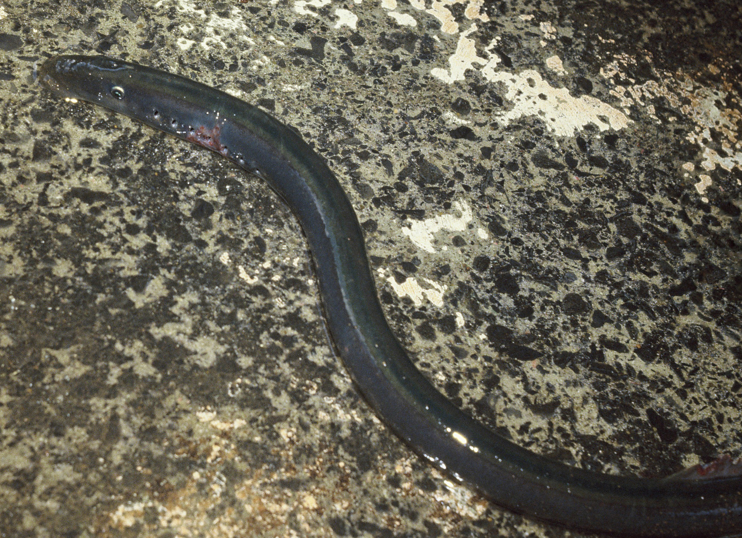 A New Zealand or pouched lamprey (Geotria australis), Northland conservancy, New Zealand